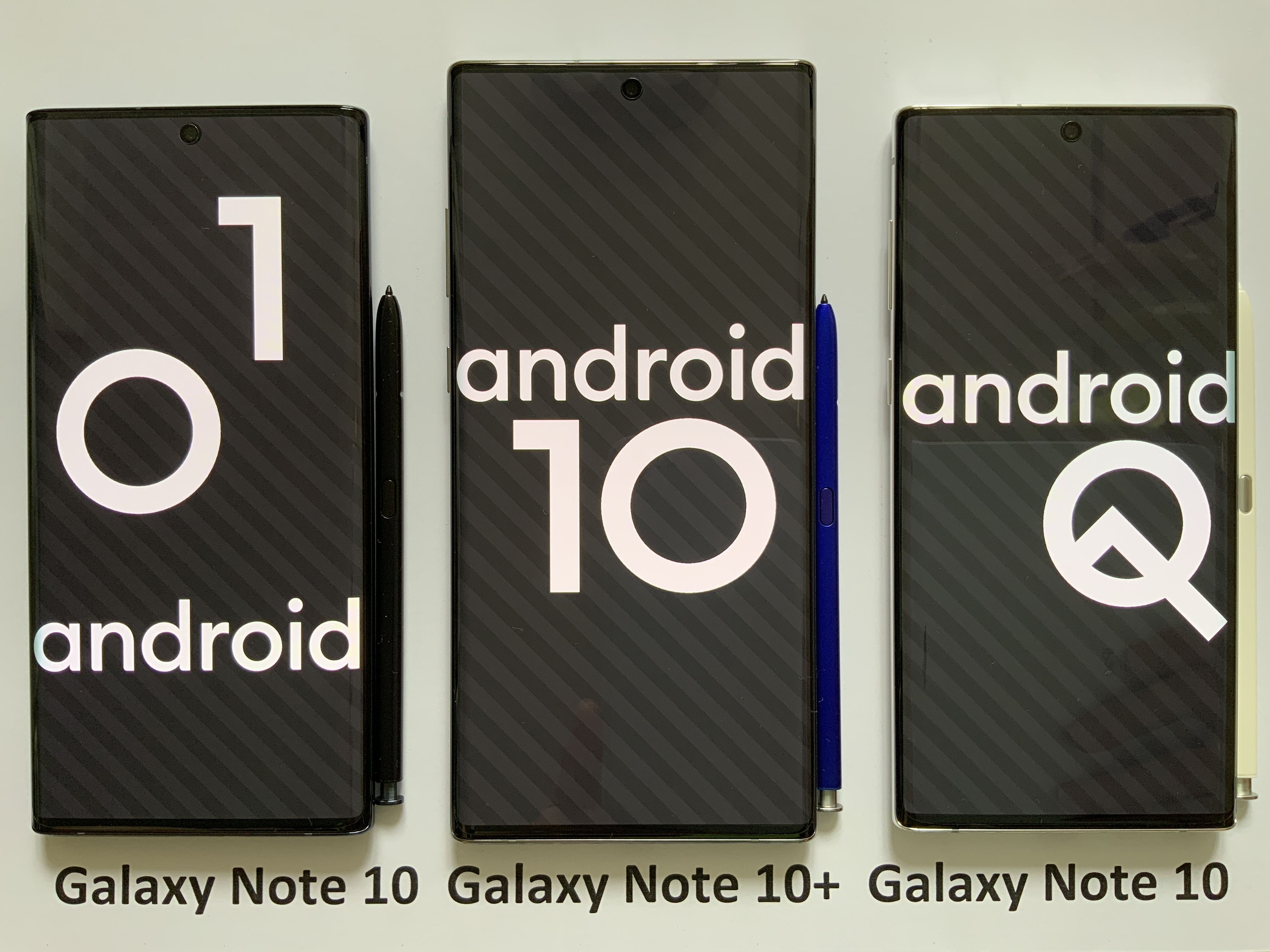 Android Q Easter eggs shown on Samsung Galaxy Note 10